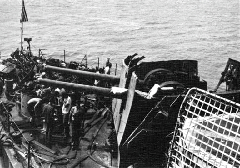 View of the destroyed aft gun turret aboard the U.S. Navy destroyer USS Higbee (DD-806) at Da Nang, Vietnam, in April 1972. On 19 April 1972, Higbee became the first U.S. warship to be bombed during the Vietnam War, when two North Vietnamese Air Force Mikoyan-Gurevich MiG-17s from the 923rd Fighter Regiment attacked, one of which, piloted by Le Xuan Di, dropped a 250 kilogram bomb onto Higbee's rear 127 mm gun mount, destroying it. The 127 mm gun crew had been outside their turret, due to a misfire within the mount, when the air attack occurred, which resulted in the wounding of four U.S. sailors.